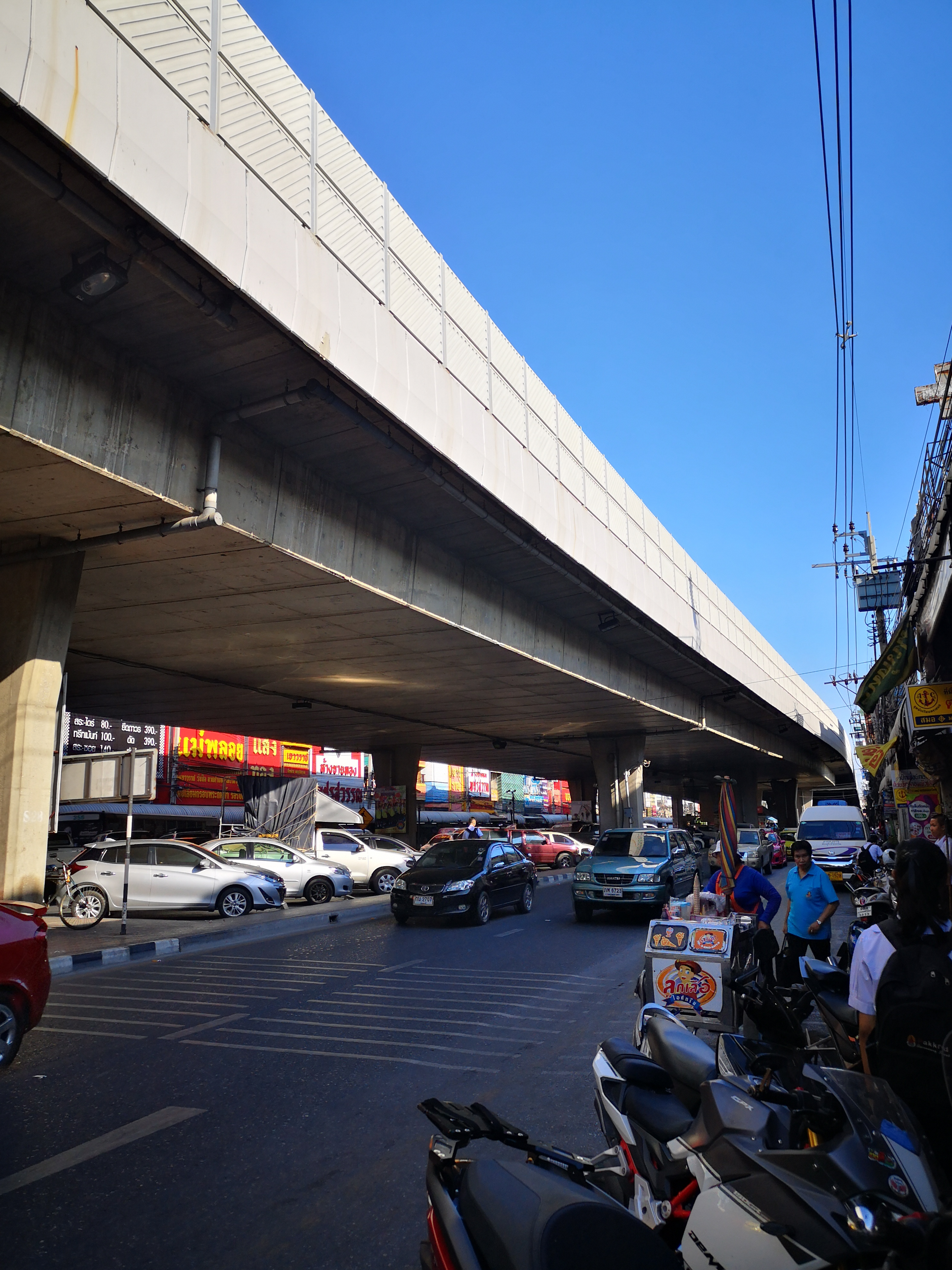 Pak Kret (Below Rama IV bridge)